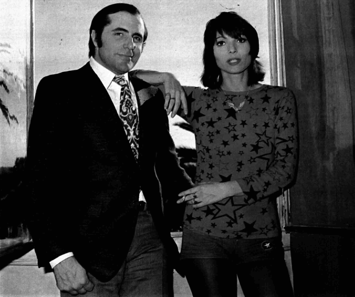 Italian actors Carlo Giuffrè and Elsa Martinelli in Sanremo as presenters of the the 1971 Sanremo Music Festival